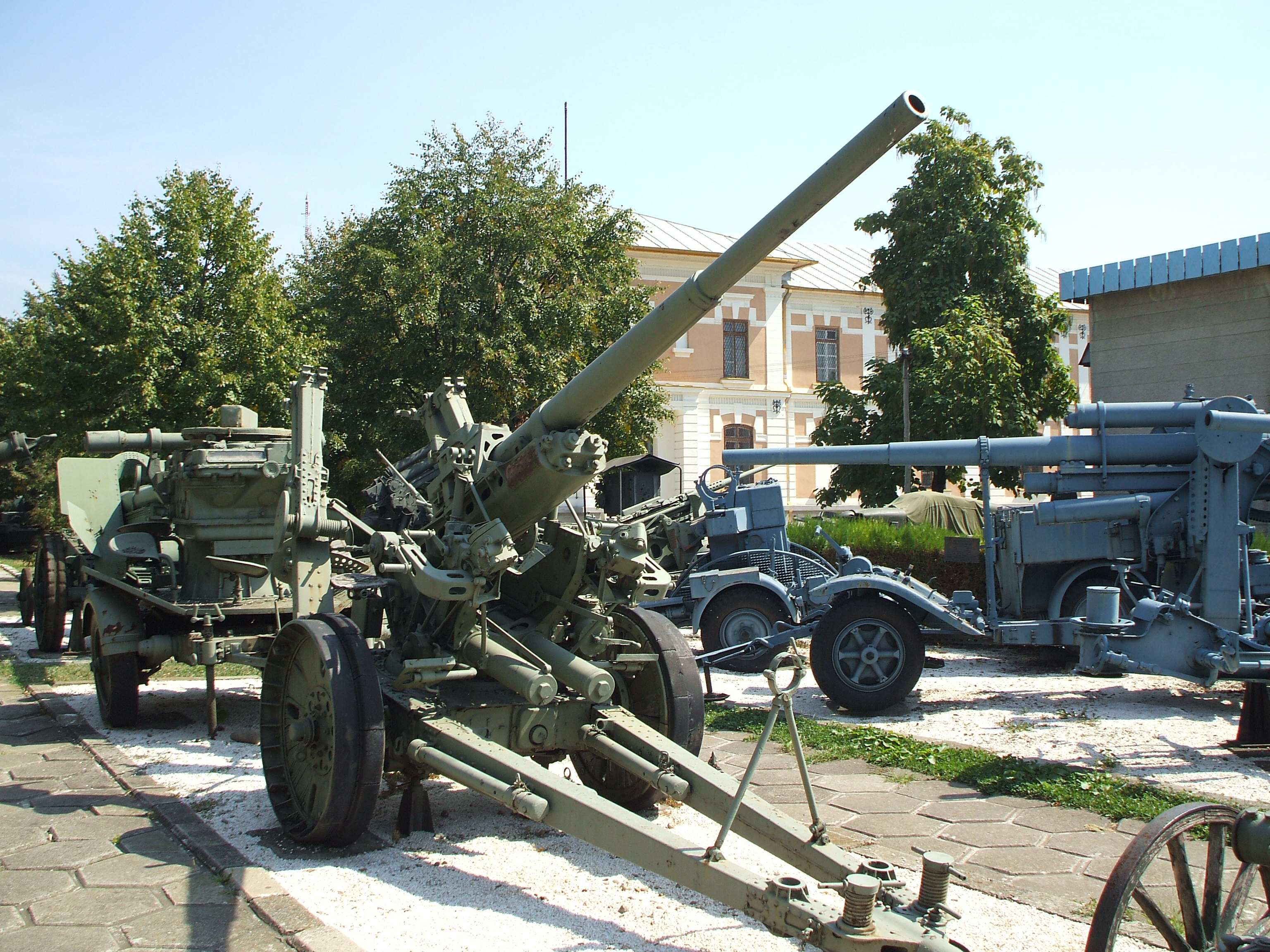 The 75 mm Vickers-Resita model 1936/39 and the Bungescu model 1938 AA fire control system on display at the National Military Museum in Bucharest.